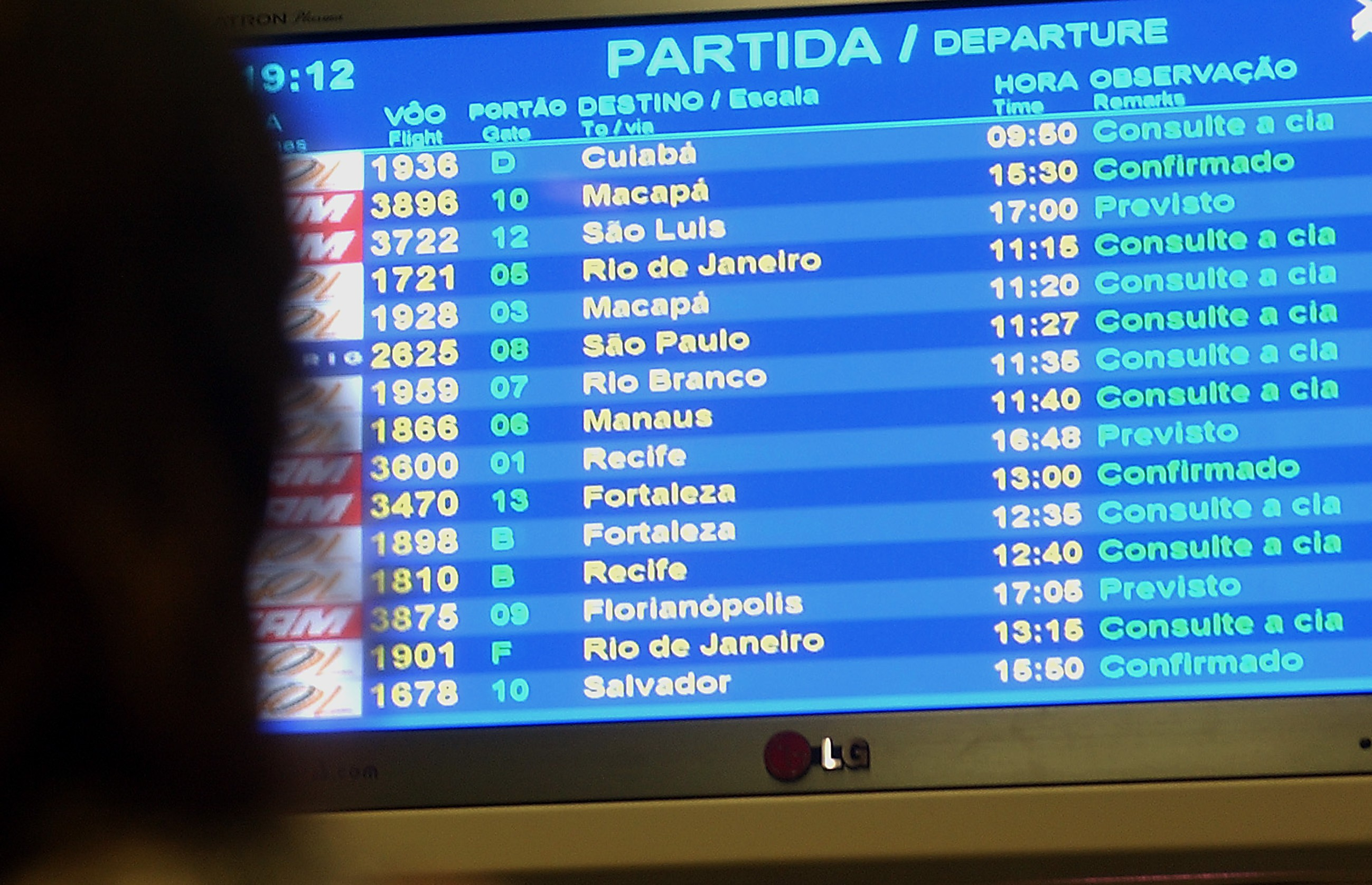 The result of a failure in the communication system of CINDACTA I caused serious delays in Brasília for all flights.